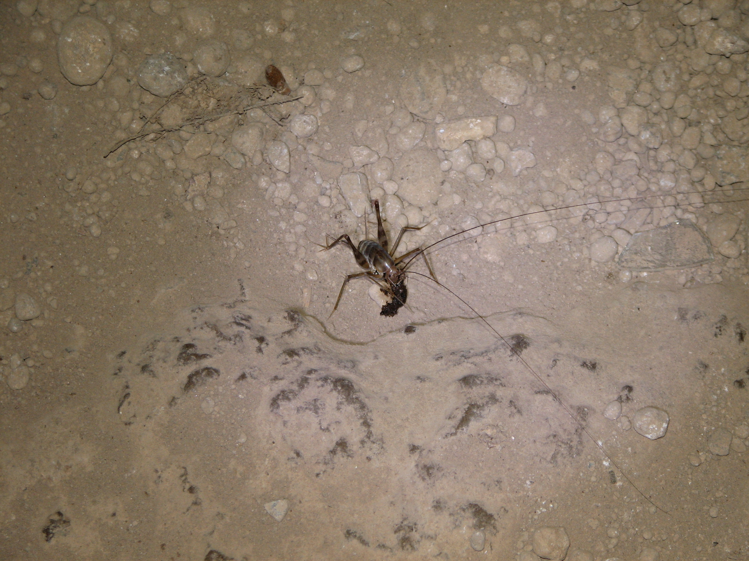 Cave bug eating droppings from a bat. The photo was taken in a cave in Thailand near Hua Hin (Tham Kaew, Sam Roi Yot national park). There were also a few bats visible inside the cave, though the tour guide told us, we should not expect any bats in this cave.